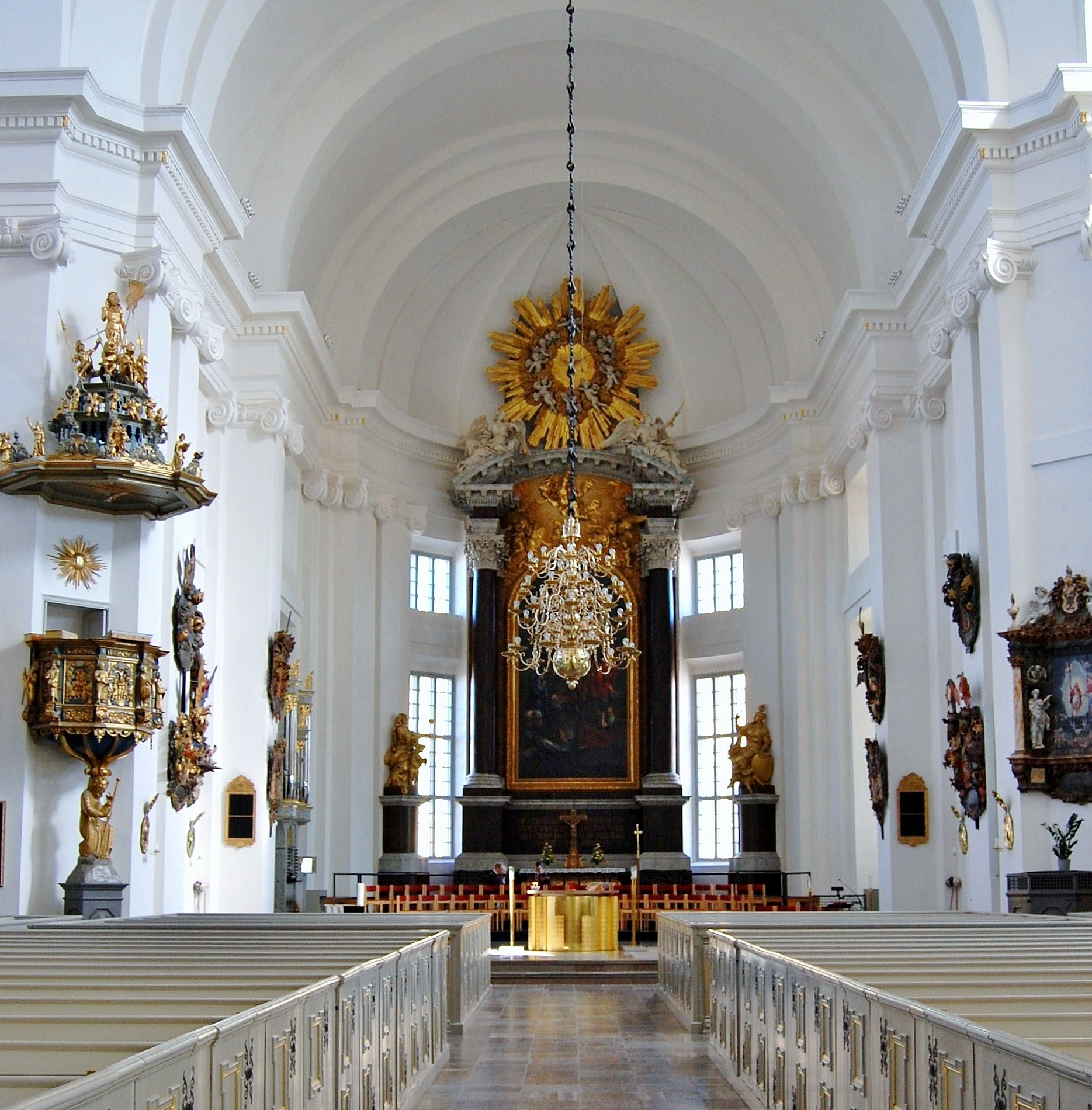 Kalmar Cathedral.Interior.